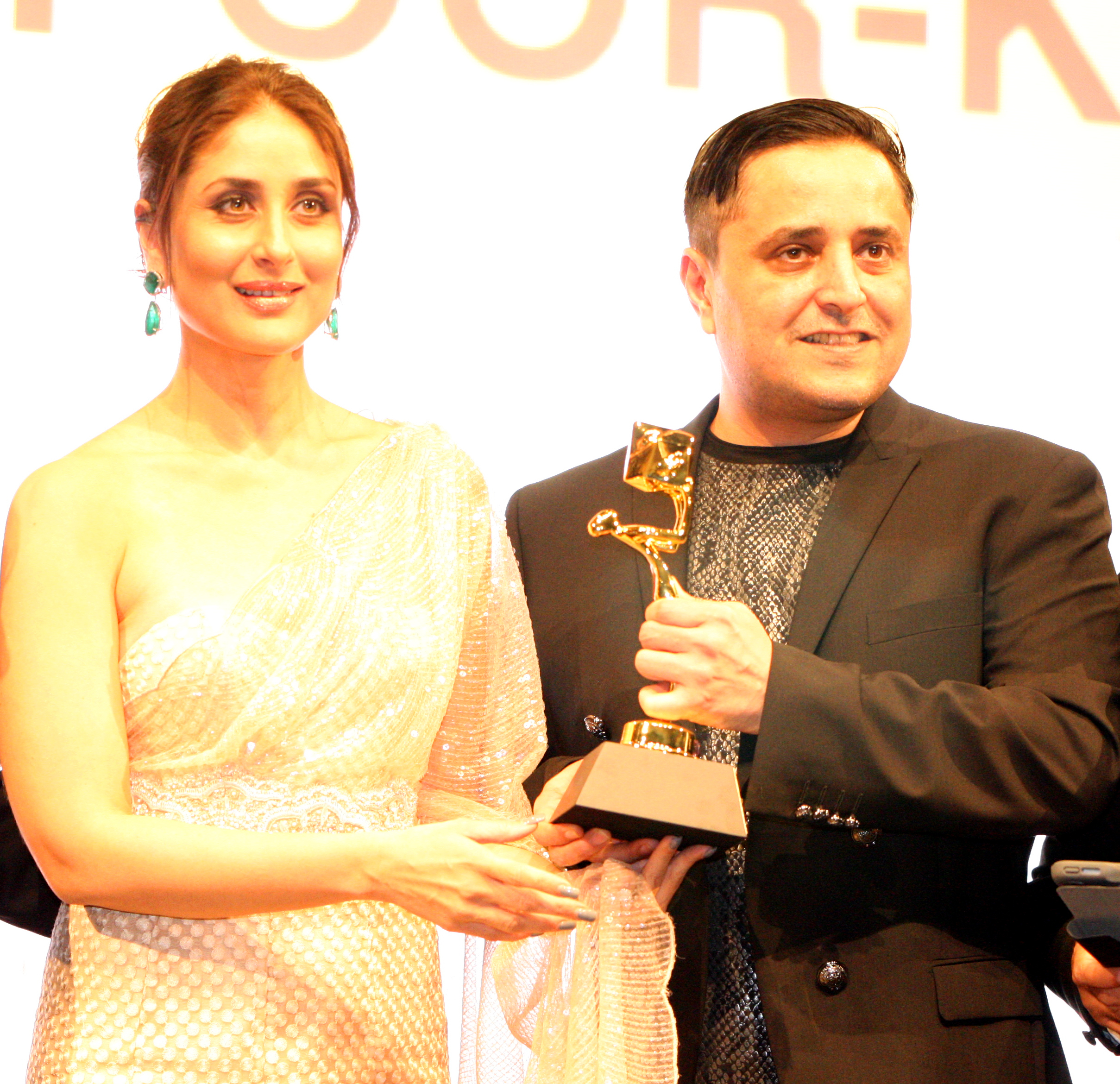 Suhail Galadari hands over the Asian Icon of the Year Award to Kareena Kapoor Khan